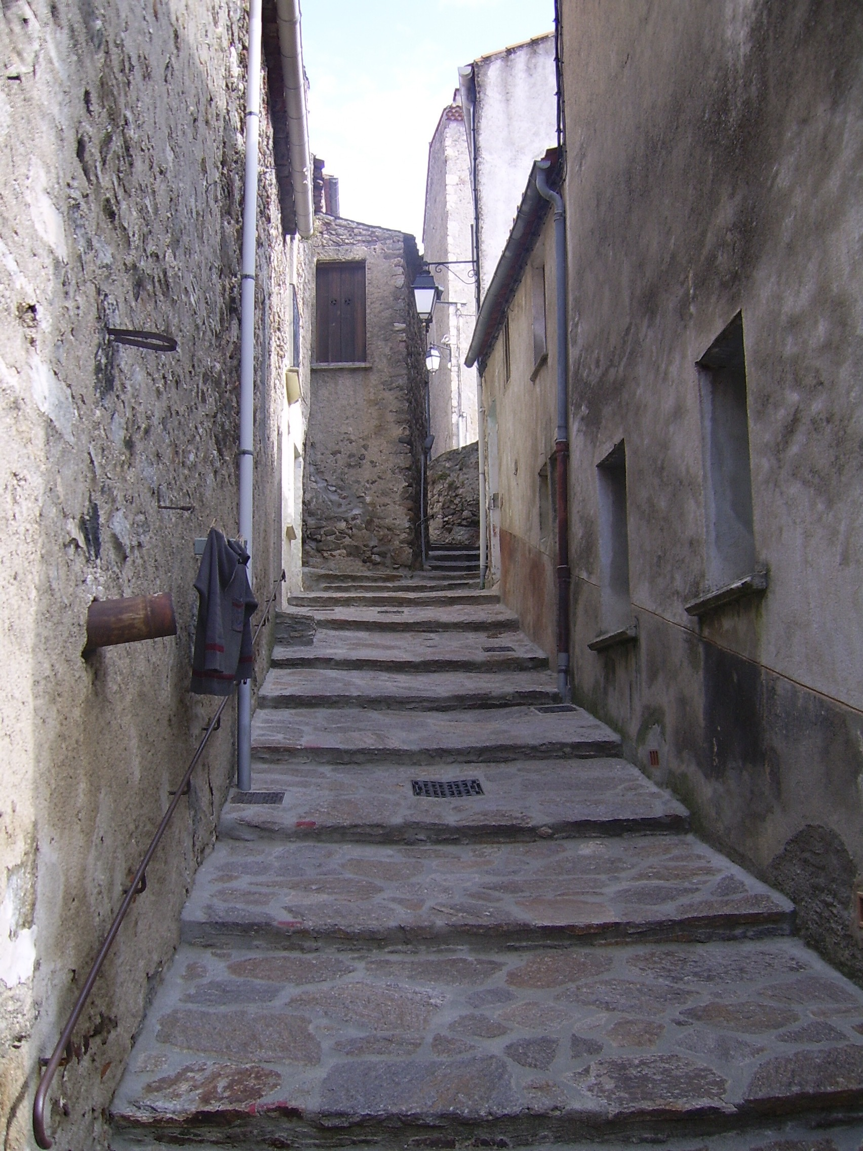 Rue du Clocher, Caramany, P-O, France